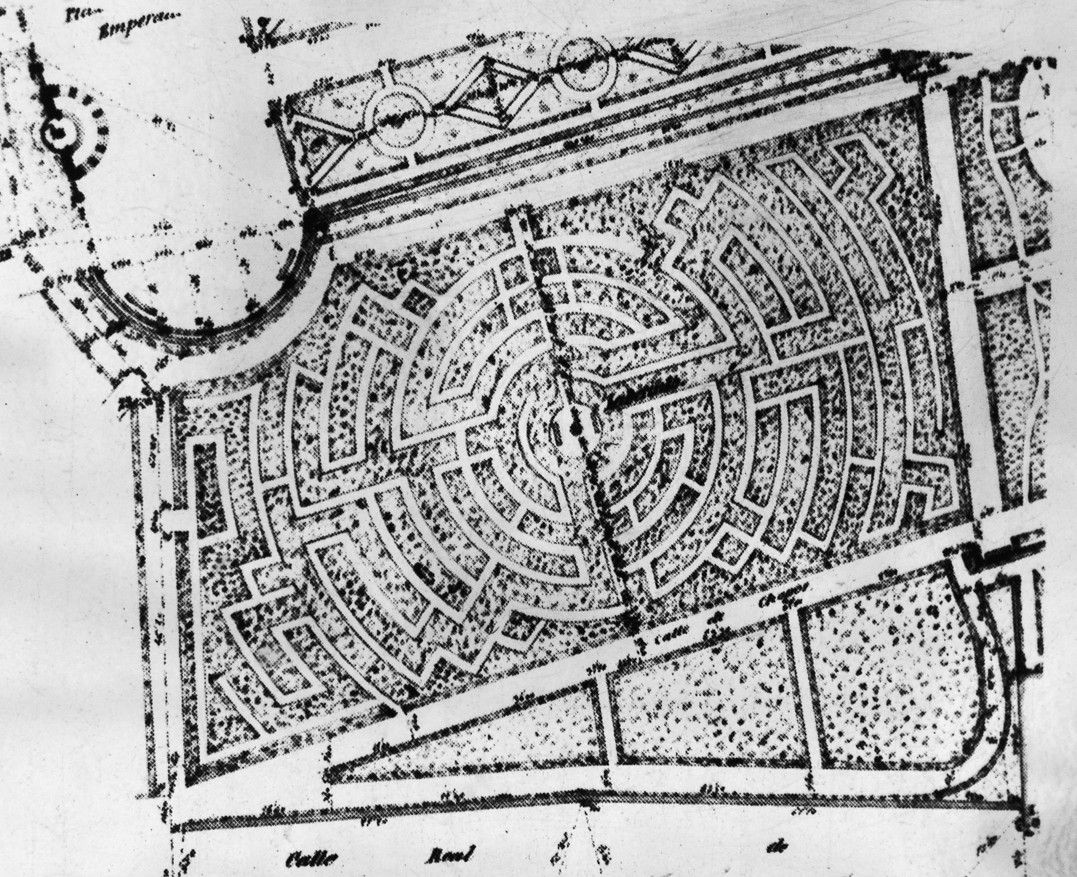 Jardín El Capricho, Madrid, Spain. Photo of info sign. Inverted.